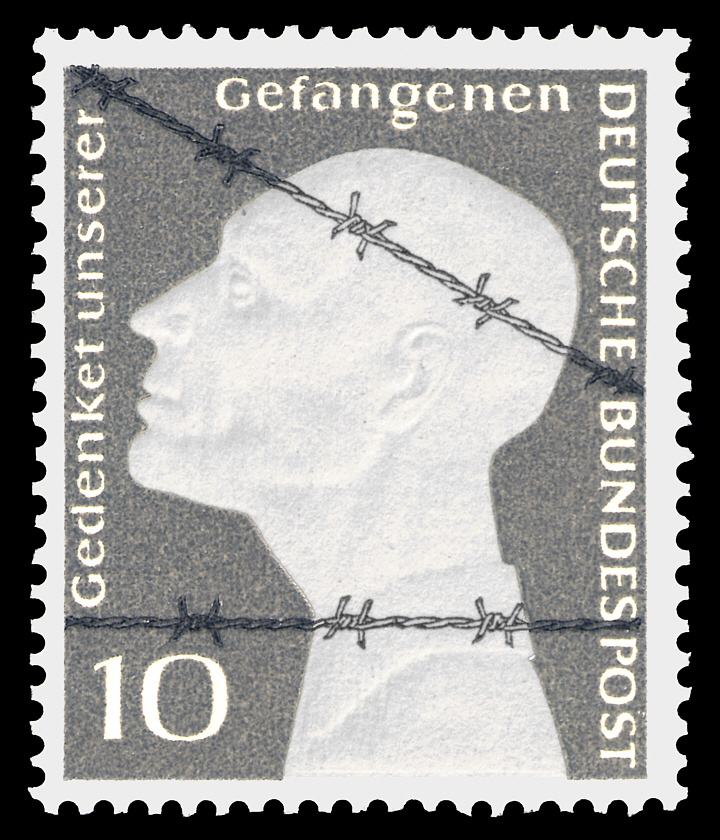 stamp for German prisoners of war Graphics by Walter Ausgabepreis: 10 Pfennig First Day of Issue / Erstausgabetag: 9. Mai 1953 Michel-Katalog-Nr: 165